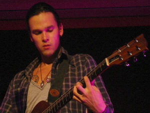 Justin Nozuka in concert in Annapolis, Maryland (U.S.).